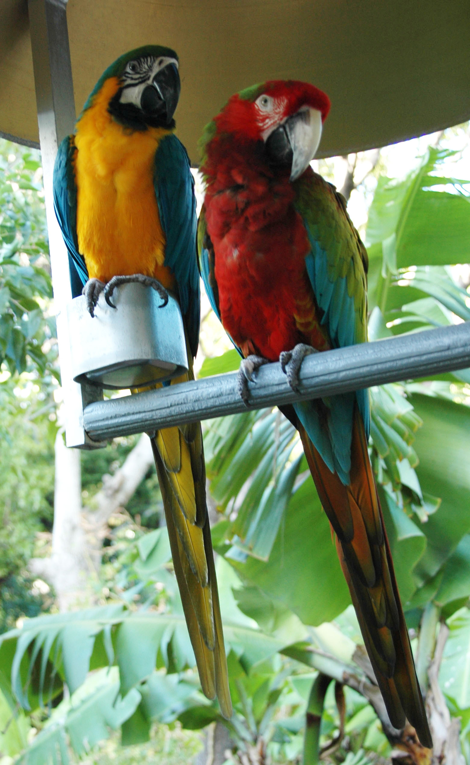 A Blue-and-Gold Macaw (left) and a Green-winged Macaw (righ) in captivity.